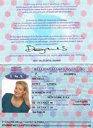 This image shows a falsified passport used in an actual internet romance scam.